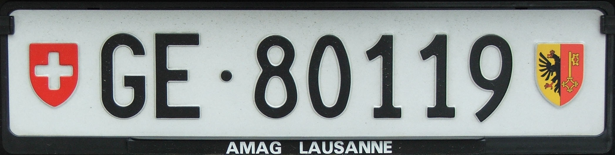 Vehicle licence plate from Switzerland as seen in 2007. "GE" stands for Geneva canton.